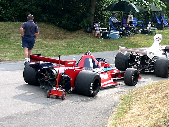 2001 Goodwood Festival of Speed Brabham BT46B and others